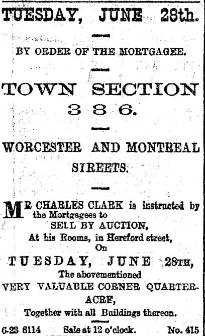 Advertisement in The Press for the sale of the German Church (not that it says that)